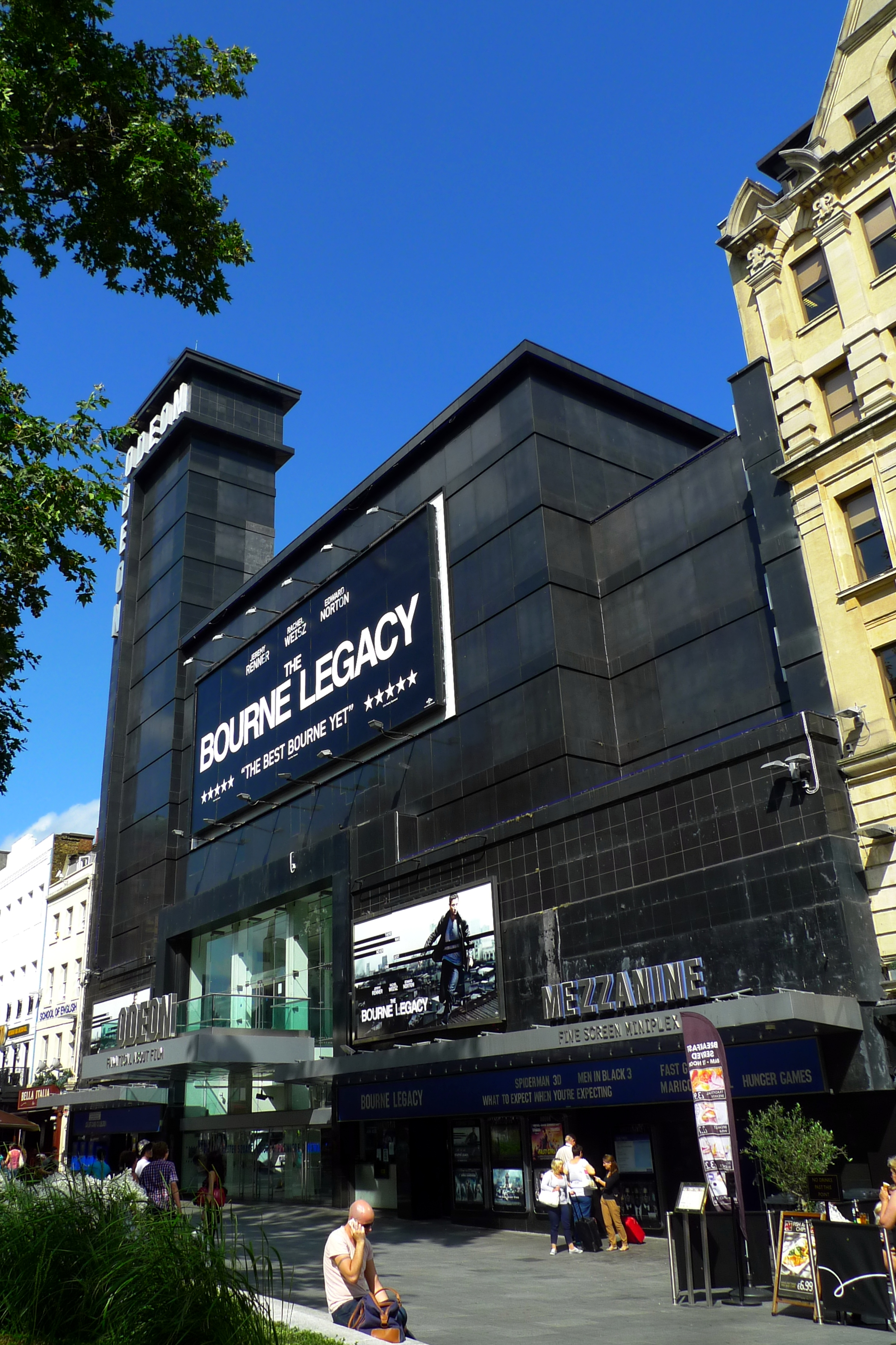 The main cinema in this cinema-heavy part of London. It also includes the smaller Odeon Mezzanine cinema (to the right). Address: 24-26 Leicester Square. Former Name(s): Alhambra Theatre (on the same site). Owner: Odeon (website). Links: Randomness Guide to London Cinema Treasures